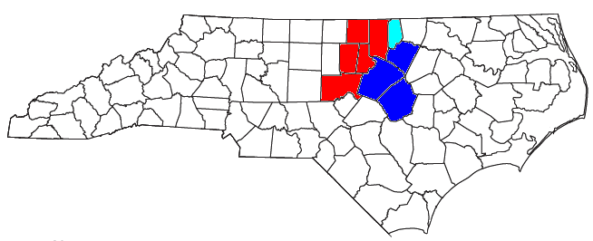 Locator map of the Raleigh-Durham-Chapel Hill Combined Statistical Area in the north central part of the U.S. state of North Carolina. The three components of the CSA are colored separately: Durham-Chapel hill metropolitan area: red Raleigh-Cary metropolitan area: blue Henderson micropolitan area: light blue